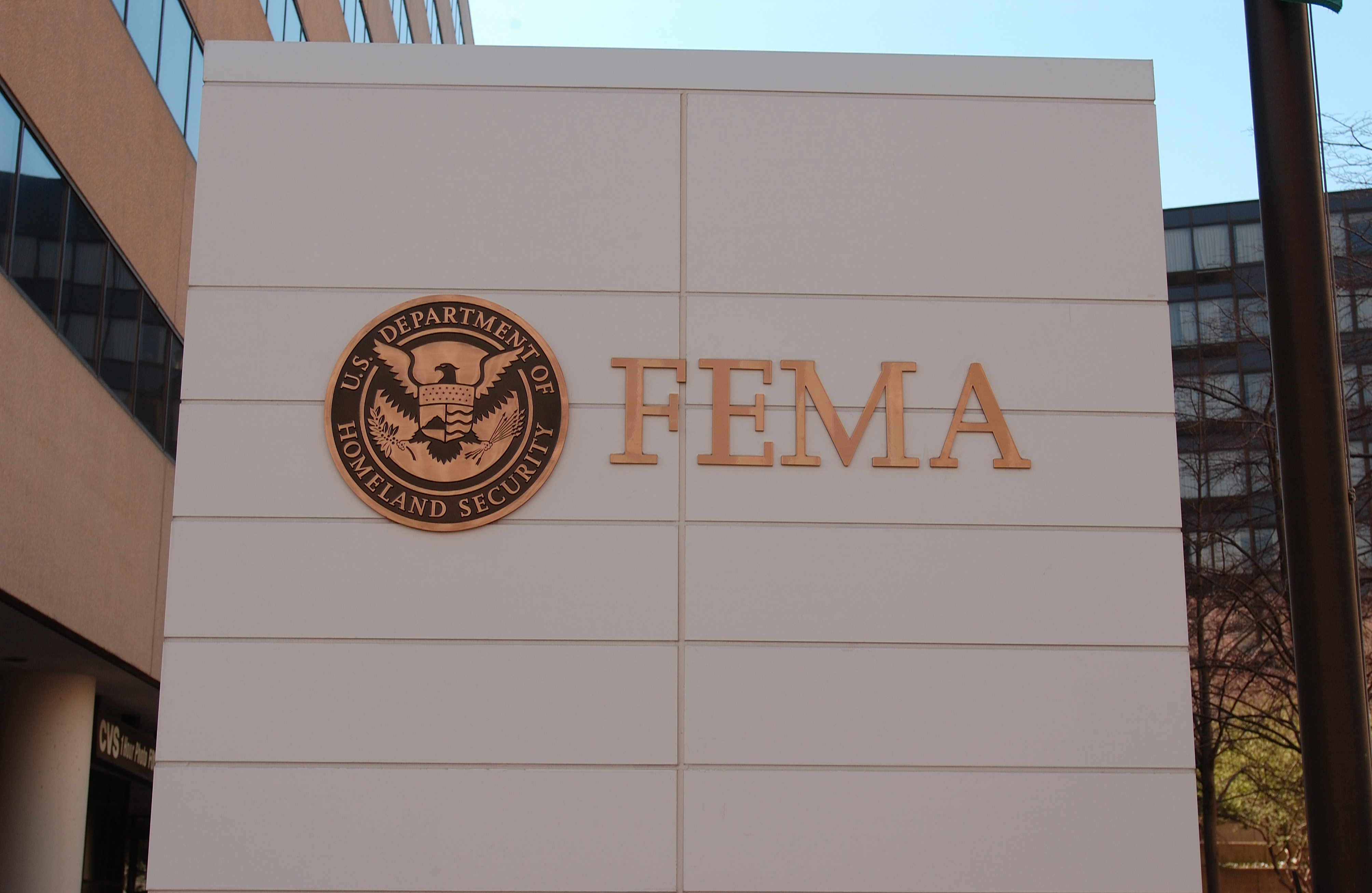 Washington, DC, April 5, 2005 -- The Department of Homeland Security FEMA sign at FEMA headquarters. Photo by Bill Koplitz/FEMA photo